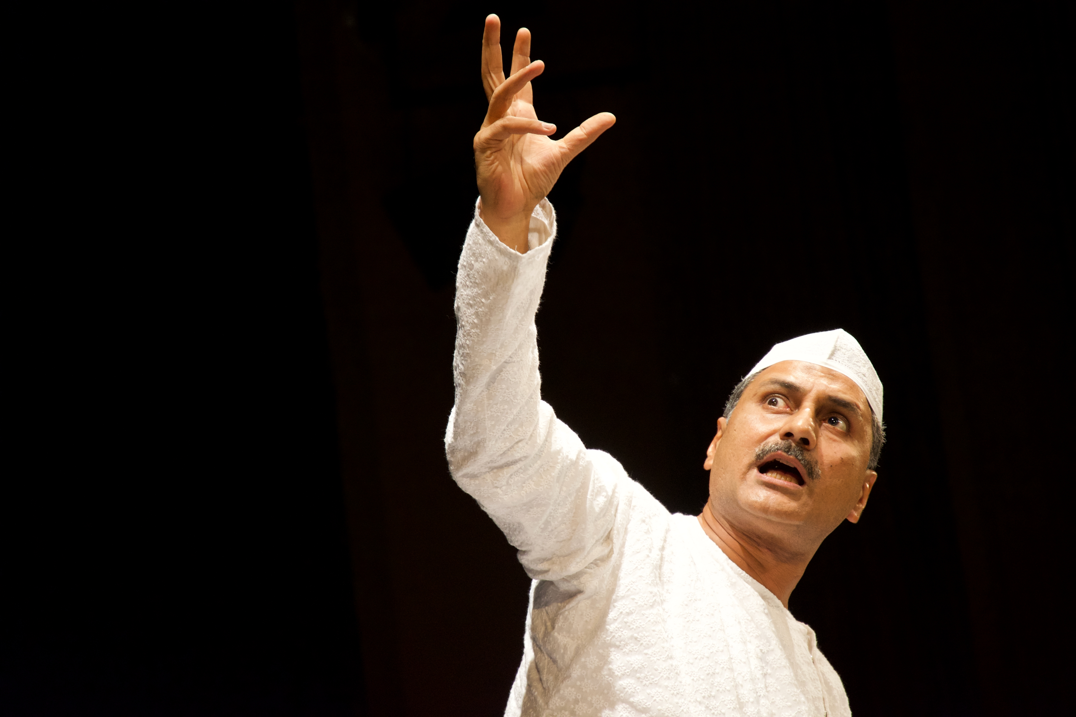 Mahmood Farooqui during the preformance of Dastan-e-Karn Az Mahabharata